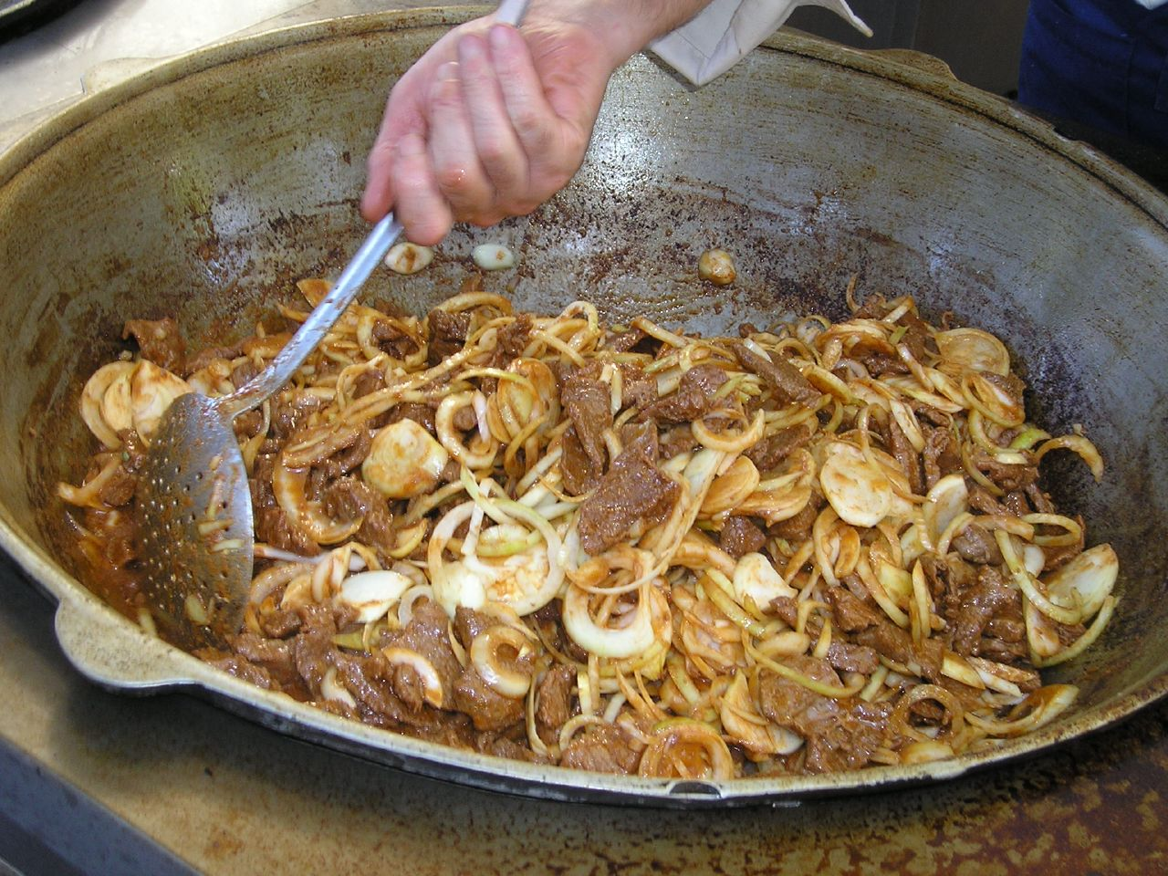 Kazakh national dish (quwurdaq) is being prepared